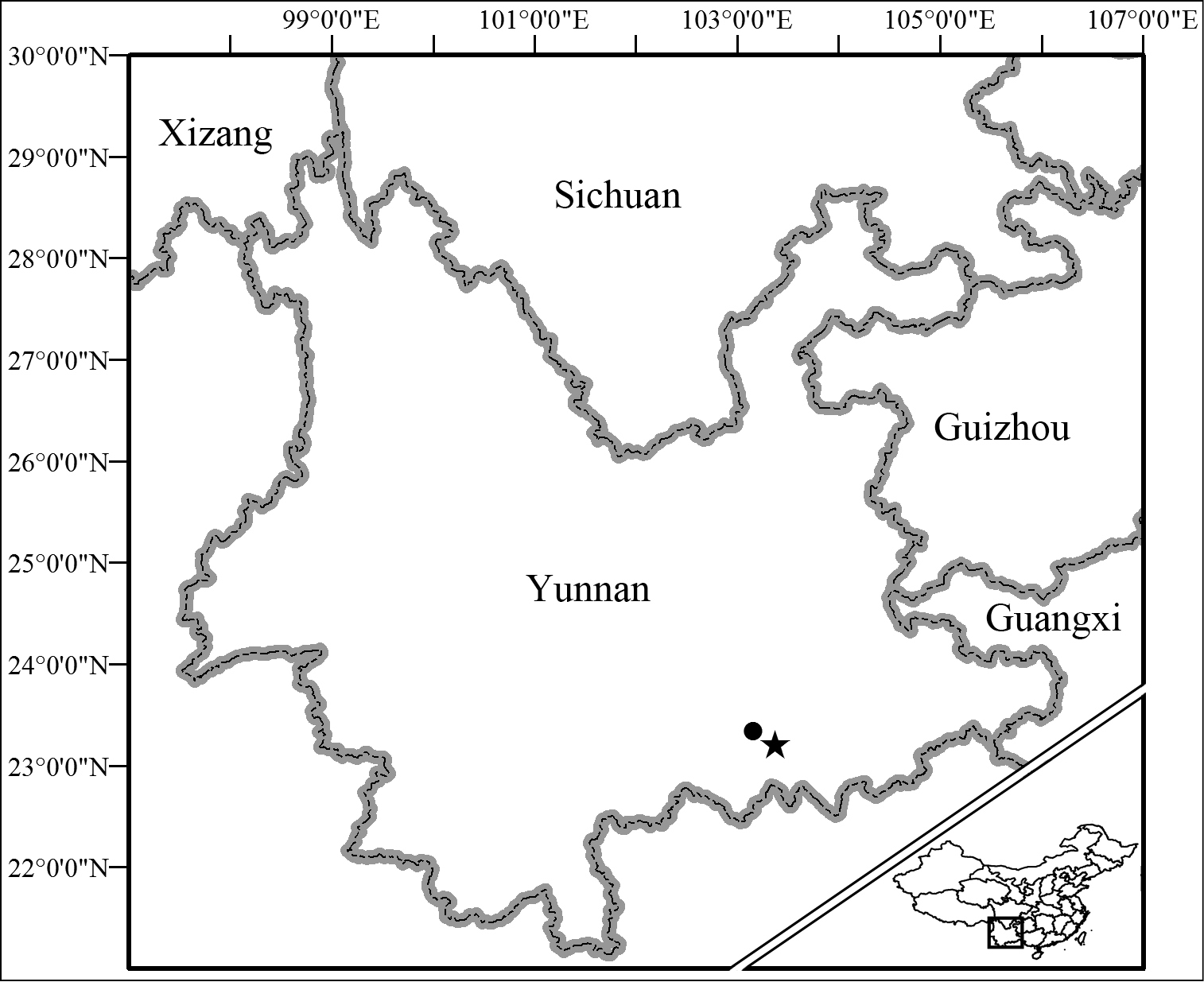 Known distribution of Kurixalus lenquanensis sp. n. Filled star indicates the type locality and filled circle indicates Yangjiatian Village.